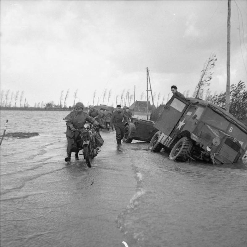 The British Army in North-west Europe 1944-45 A despatch rider pushes his motorcycle along a flooded road in Holland, past an artillery tractor which has got stuck in a ditch, 8 November 1944.